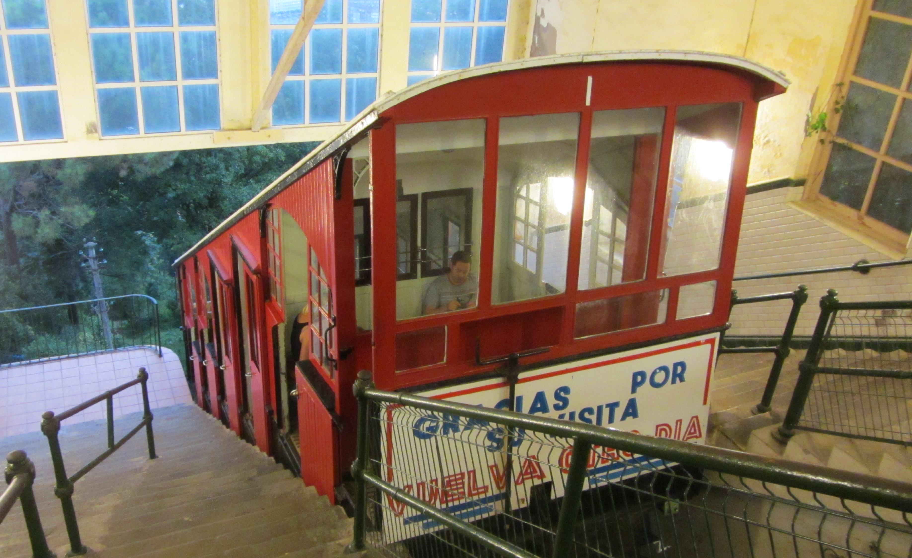 Monte Igeldo funicular at the top station (San Sebastian, Spain)